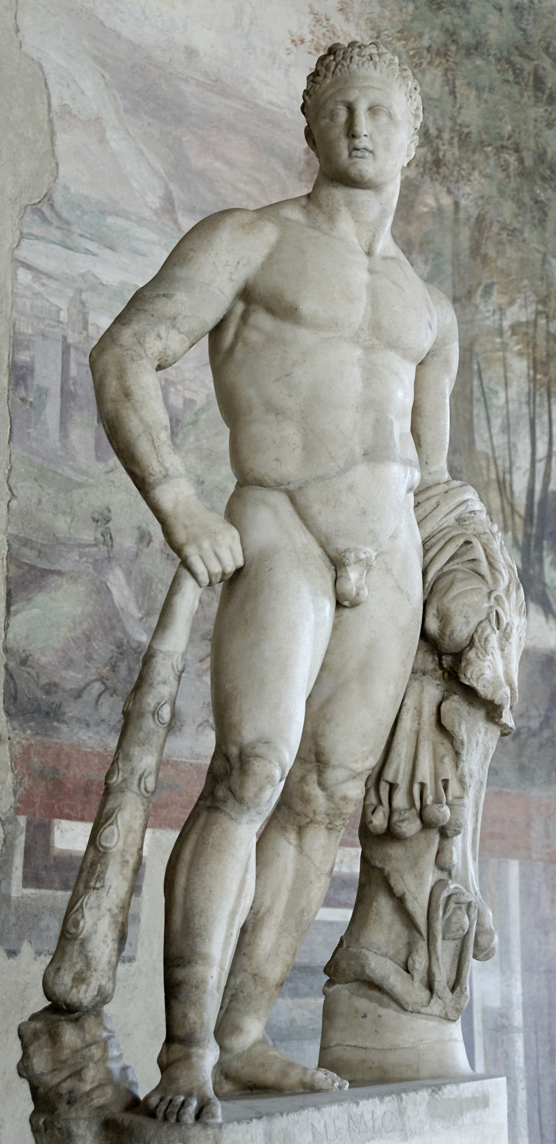 Herakles with his club and the lion skin. Coarse-grained crystalline marble, Roman copy of the 2nd century AD after a Greek original of the 4th century attributed to Lysippus.